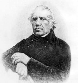 A portrait of Samuel Bamford, a British radical writer and reformer from Lancashire, England.